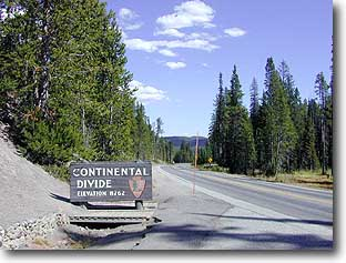 Craig Pass, Continental Divide, Yellowstone National Park